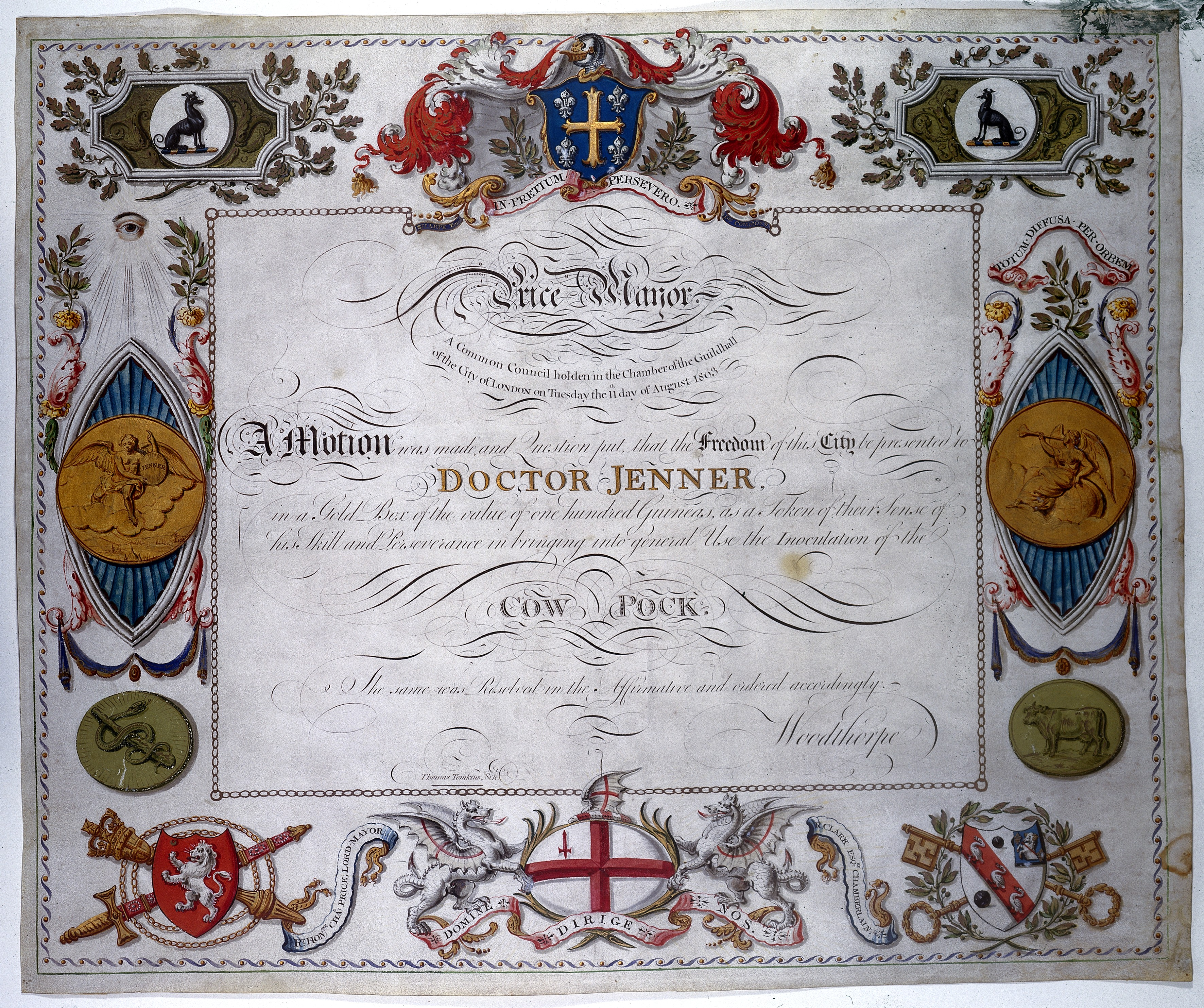 Certificate of the Freedom of the City, awarded to Edward Jenner, 11th August 1803. Archives & Manuscripts Keywords: Edward Jenner